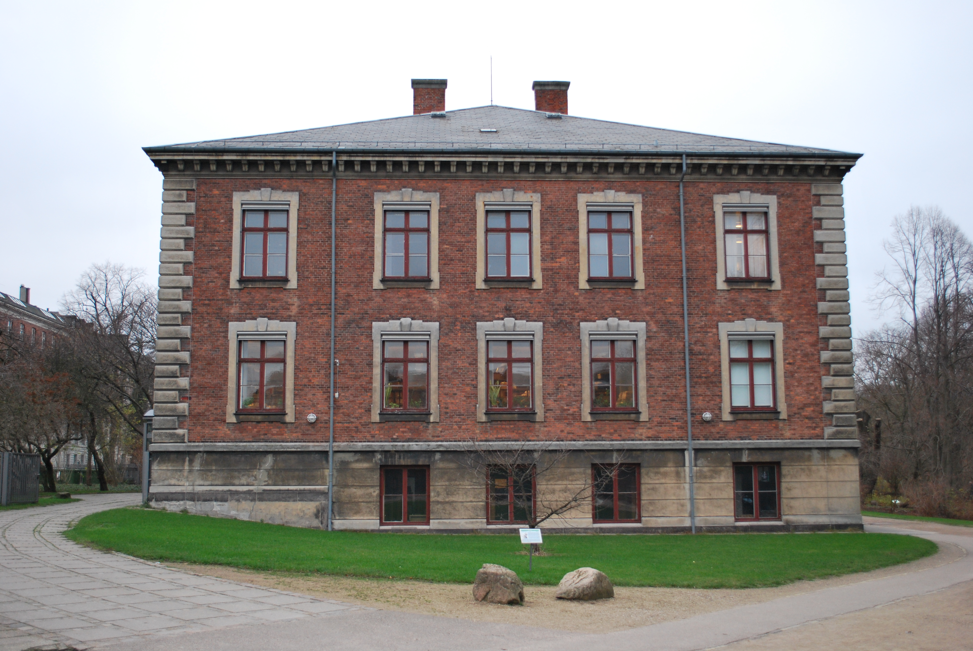 Botanisk Museum, east wall, University of Copenhagen Botanical Garden